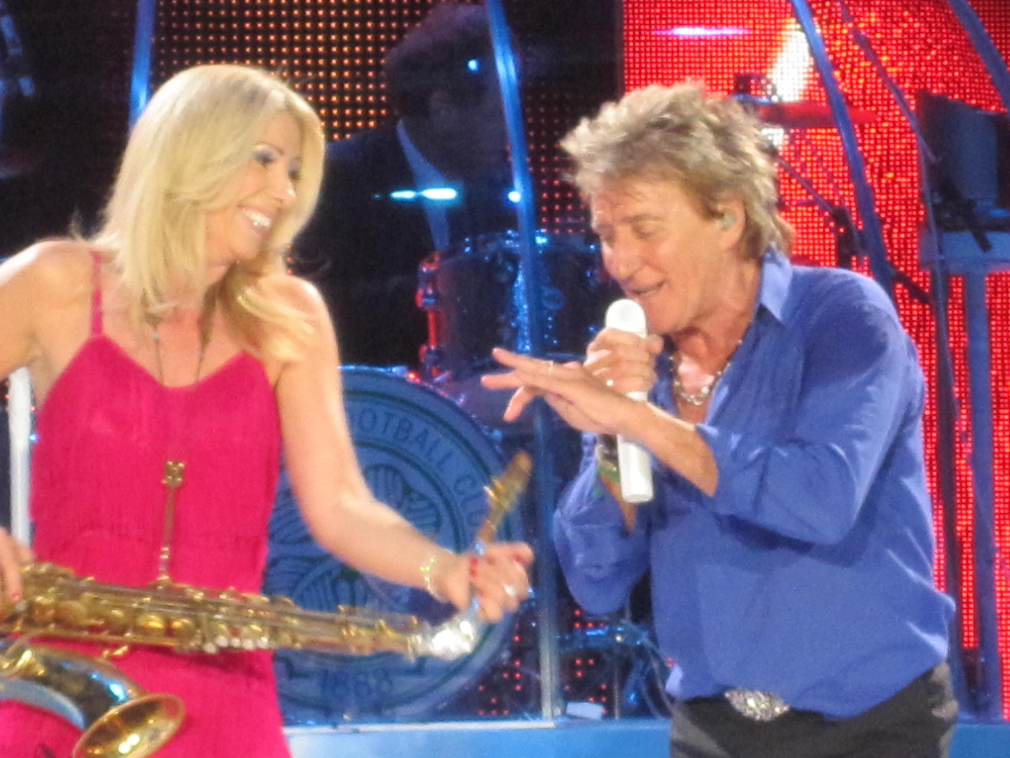 Live @O2 World Hamburg. Rod Stewart with Katja Rieckermann